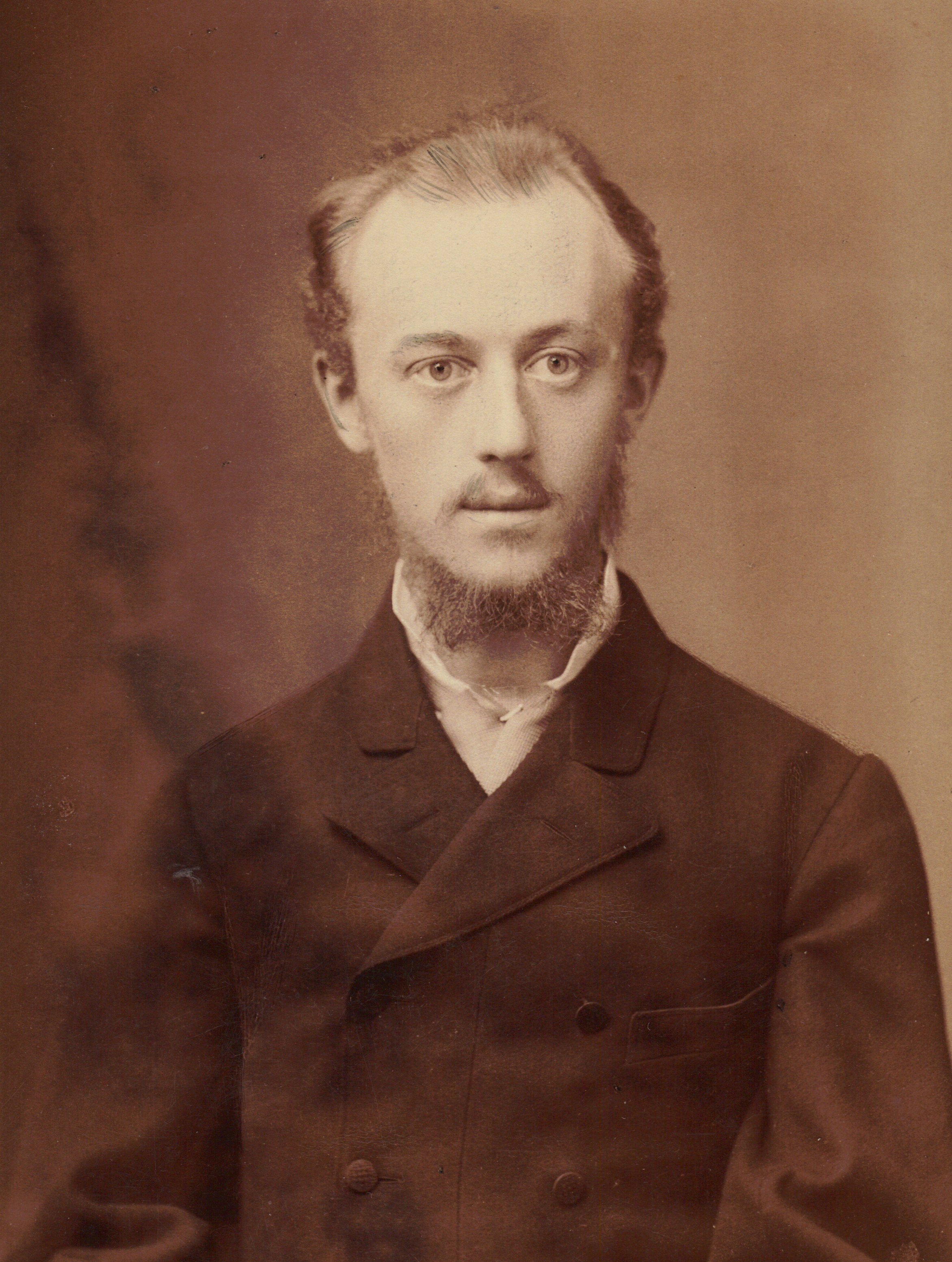 Russian-Polish inventor Mikhaïl Ossipovitch Dolivo Dobrovolski. Photo probably taken in 1883 when he was a student in Darmstadt (Germany).